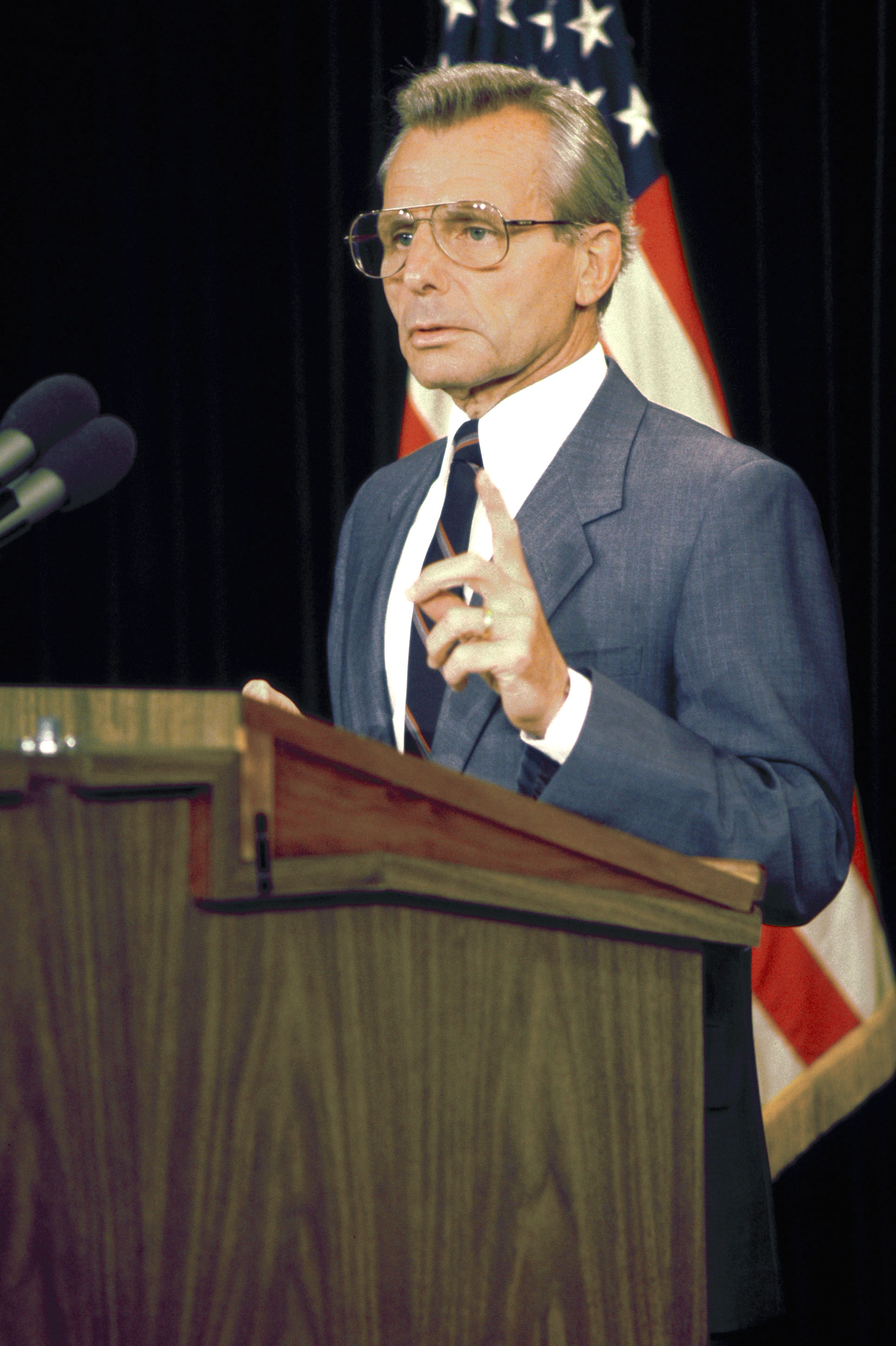 Secretary of Defense Frank Carlucci answers questions from the press regarding the downing of Iran Air Flight 655 at the Pentagon.